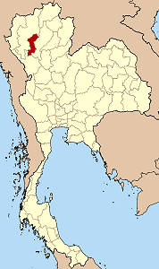 Map of Thailand hightlighting Lamphun province